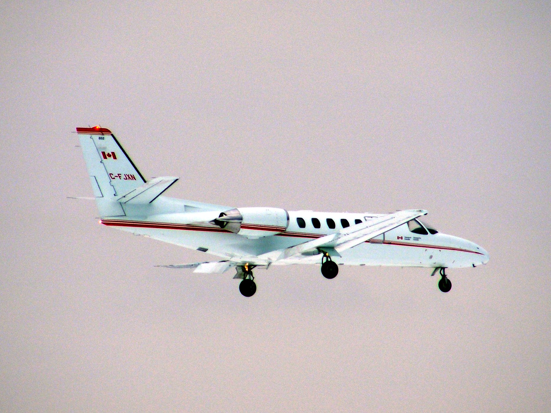 Transport Canada - Cessna 550 Citation II C-FJXN